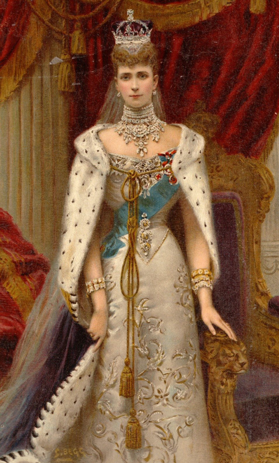 Queen Alexandra (1844-1925), wife of Edward VII of the United Kingdom dressed to attend the coronation of her husband June 26 1902.